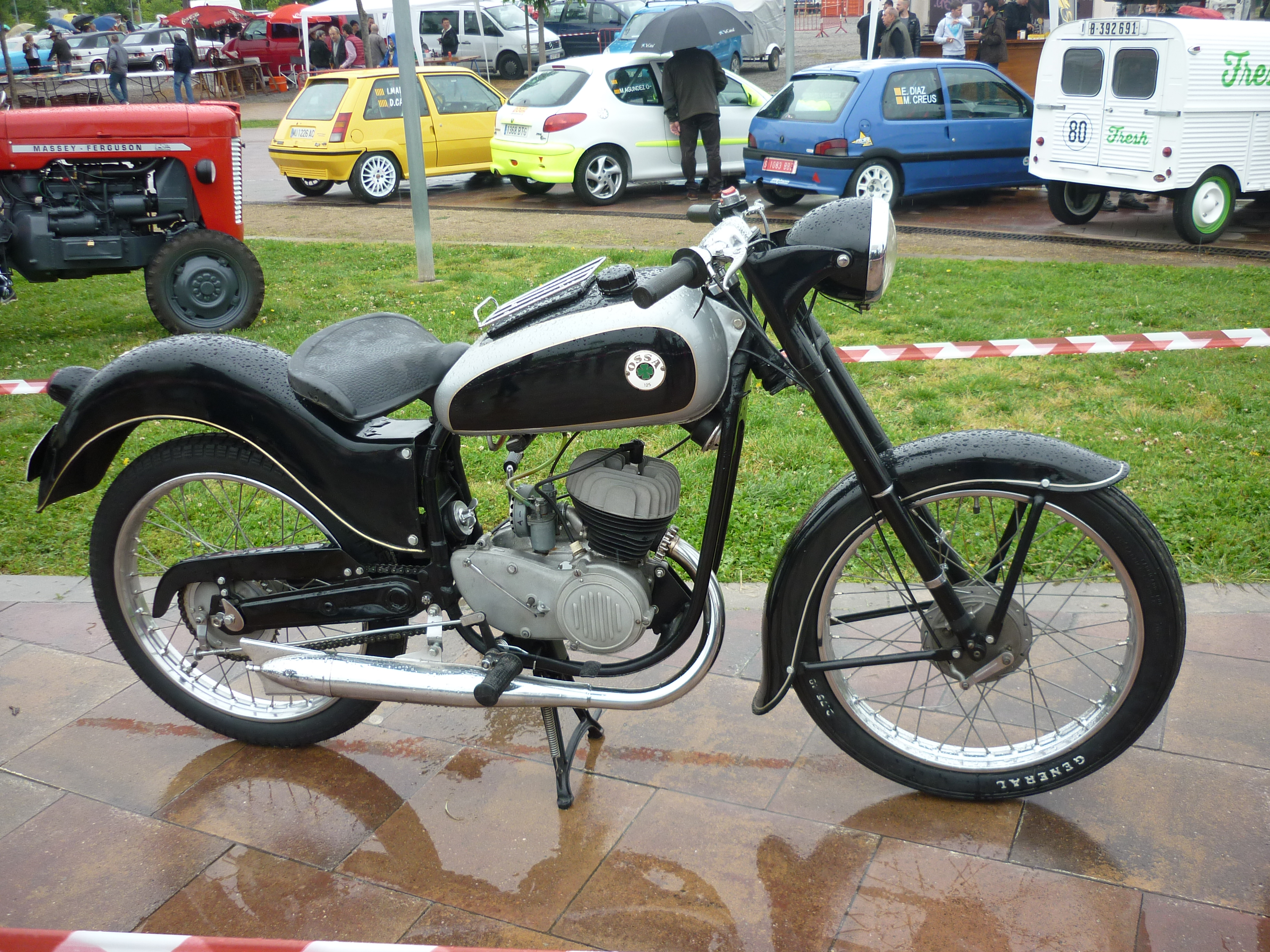 Ossa 125 (1951)